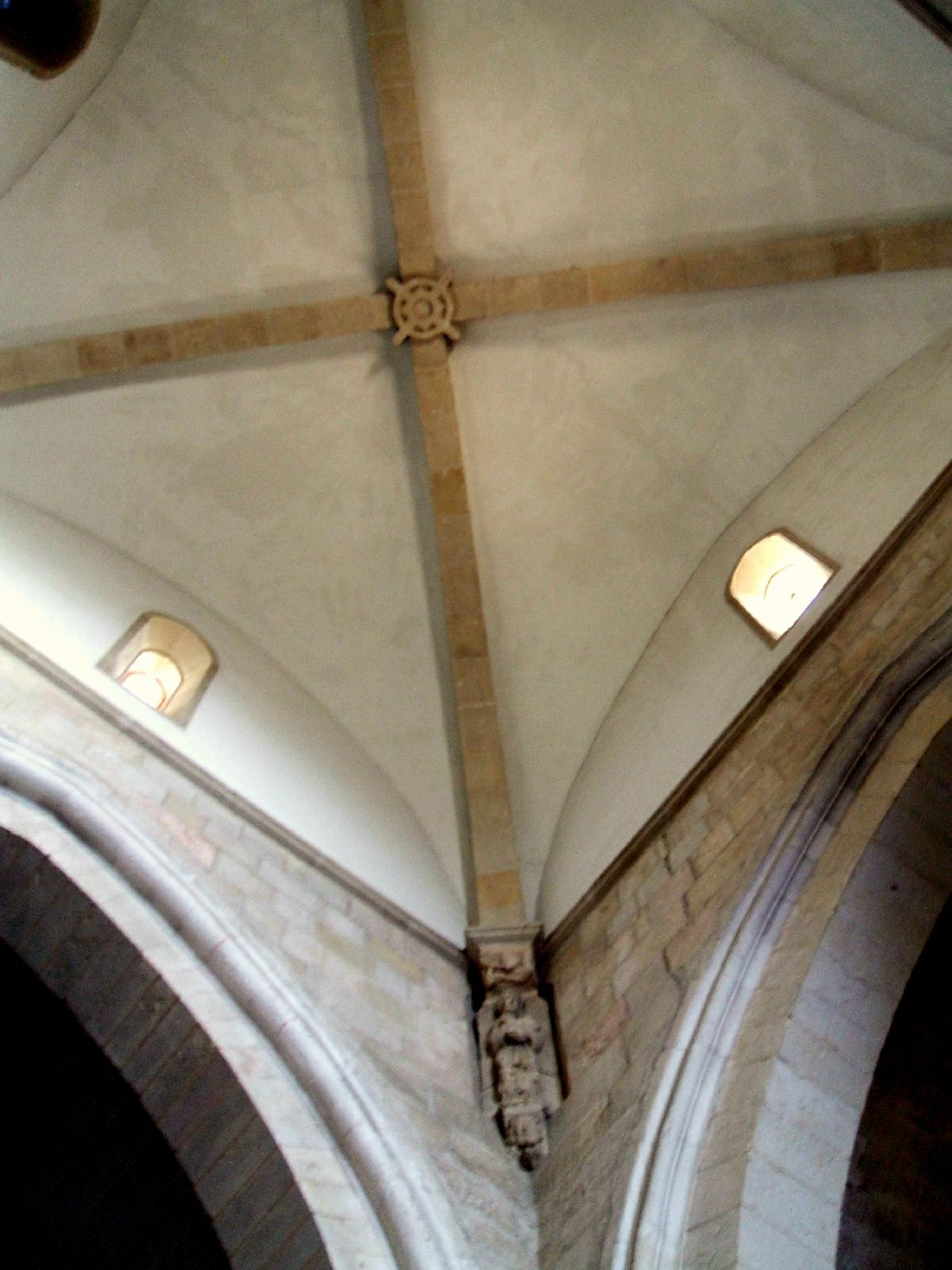 Bóveda del crucero de la Basílica de San Prudencio de Armentia, en Vitoria-Gasteiz (Álava, País Vasco, España)